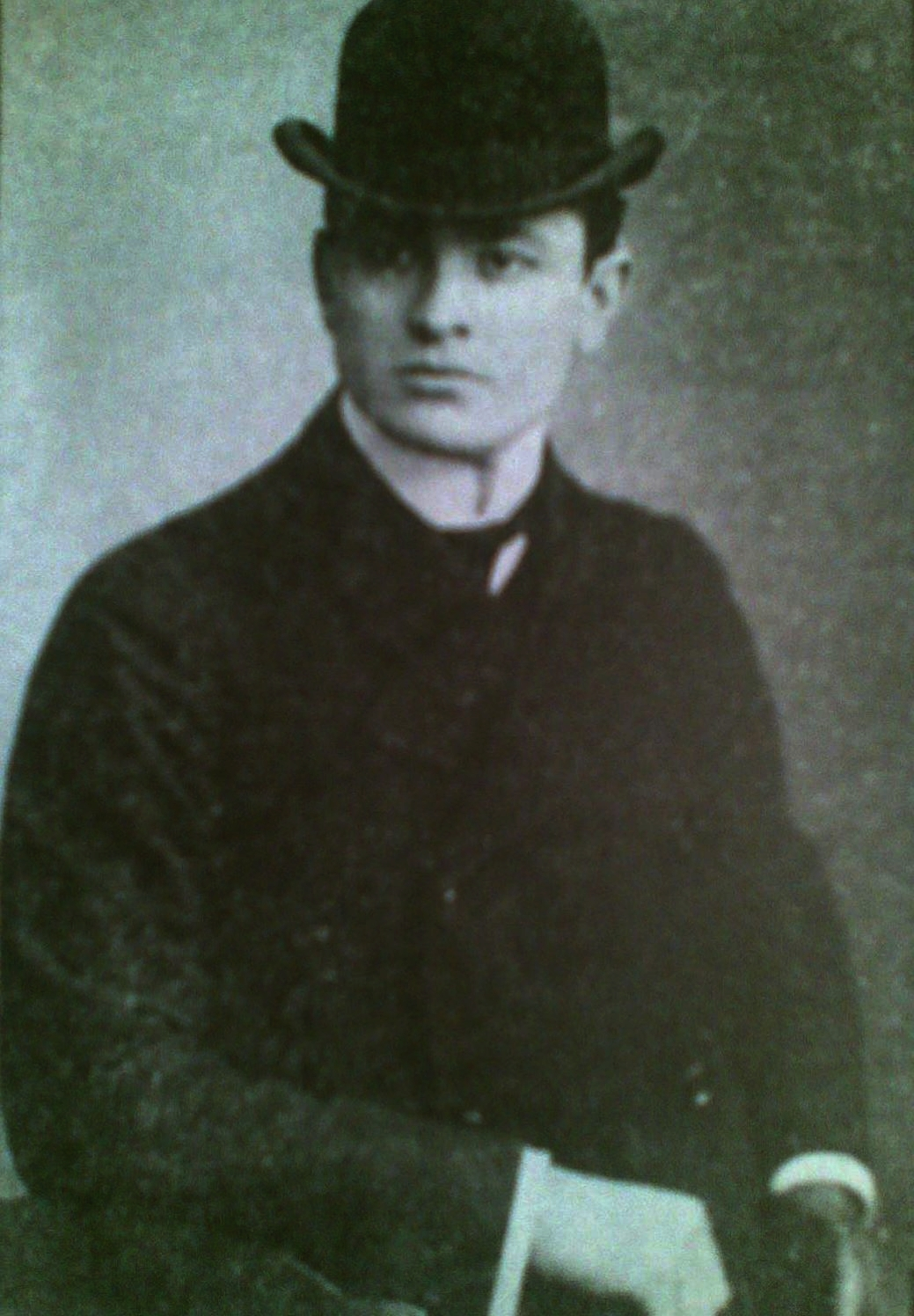 This is the most pleasent photo of Grigol Robakidze